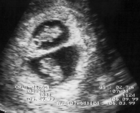 Ultrasound scan twin pregnancy, 8 weeks, triangular peak of chorion extending from the placenta into the inter-twin membrane, λ sign in a dichorionic, diamniotic twin pregnancy.